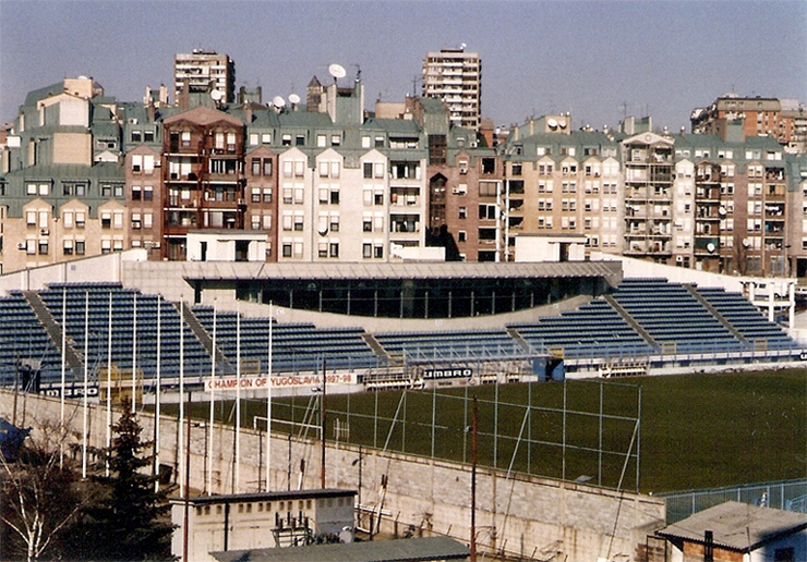 FK Obilić Stadium, pictured in 2004.